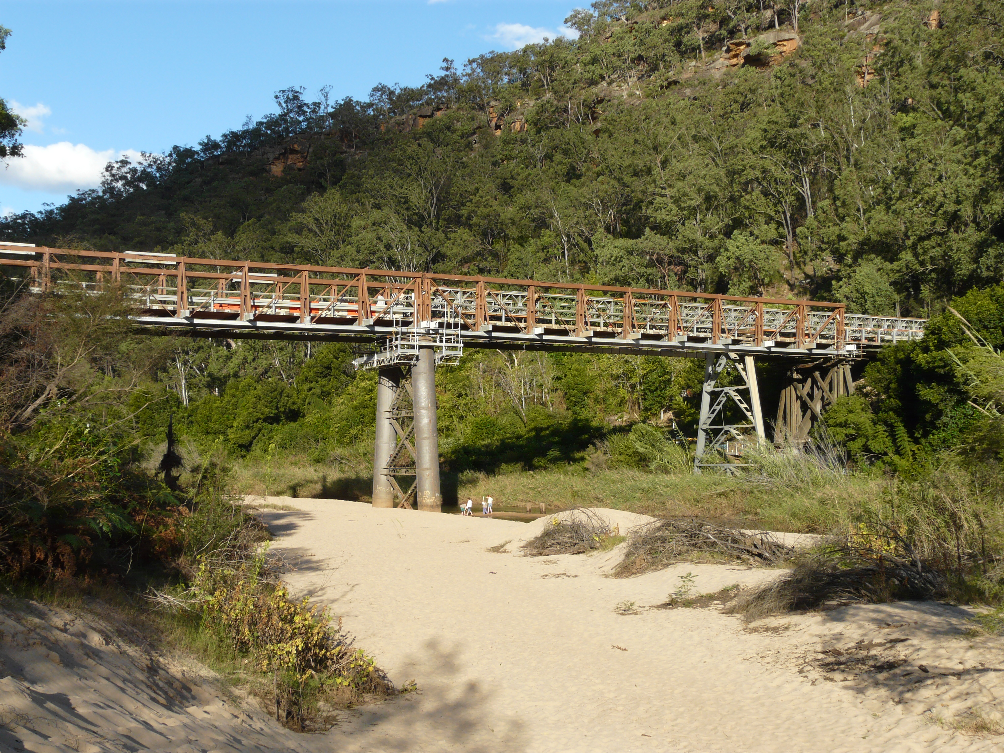 Road bridge across the Macdonald River at St Albans. This bridge is of historical significance as one of the largest DeBurgh timber truss bridges in NSW as documented on the RTA Website [1]